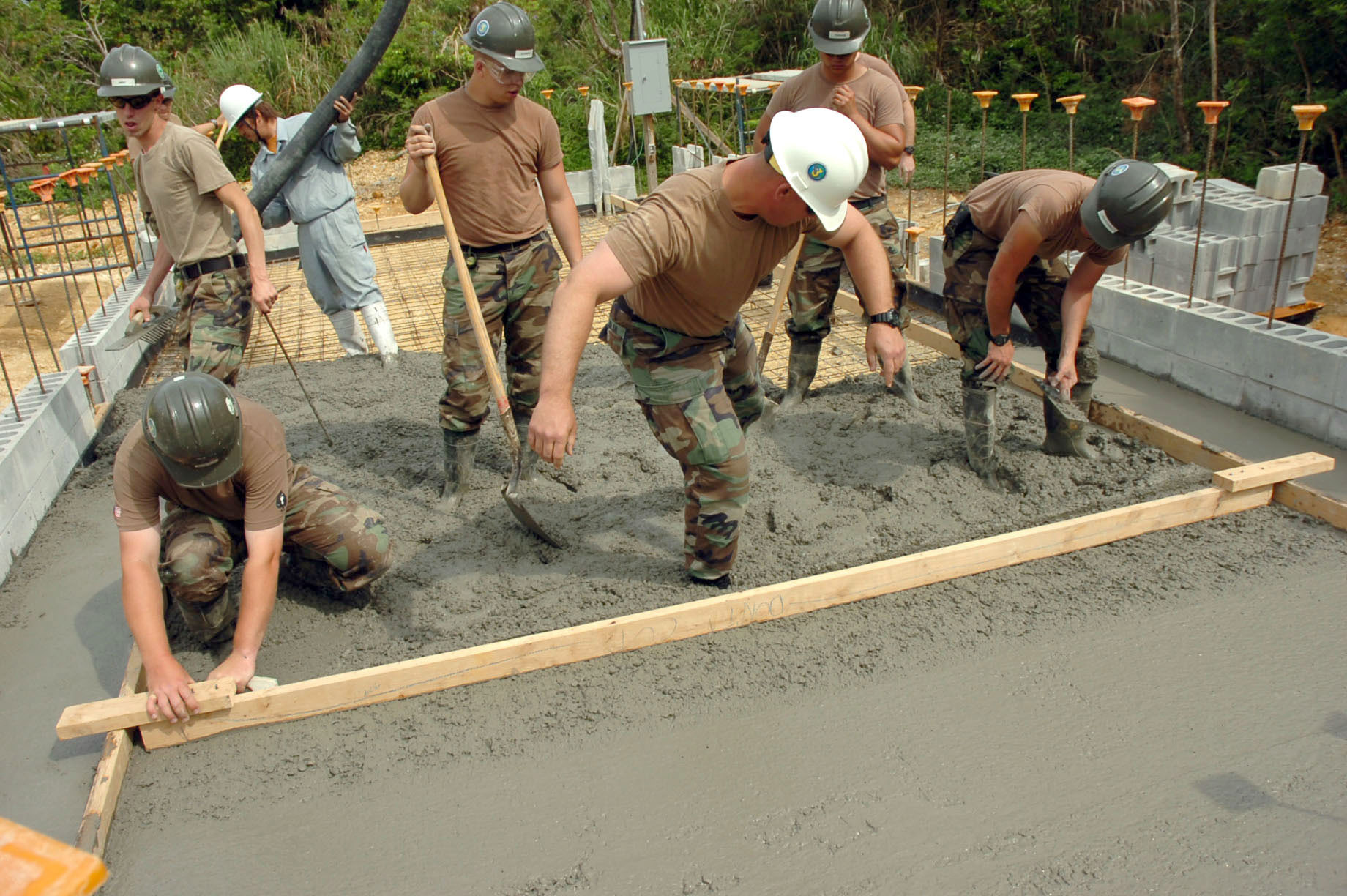 OKINAWA, Japan (April 16, 2007) - Chief Builder James Dolan uses his boots to level concrete that has recently been poured onto the floor of a storage facility. Seabees from Naval Mobile Construction Battalion (NMCB) 3 are constructing a storage facility at Camp Hansen, Okinawa. Seabees from NMCB-3 are on a six-month deployment to the Far East in support of construction operations and the global war on terrorism. U.S. Navy photo by Mass Communication Specialist 1st Class Carmichael Yepez (RELEASED)